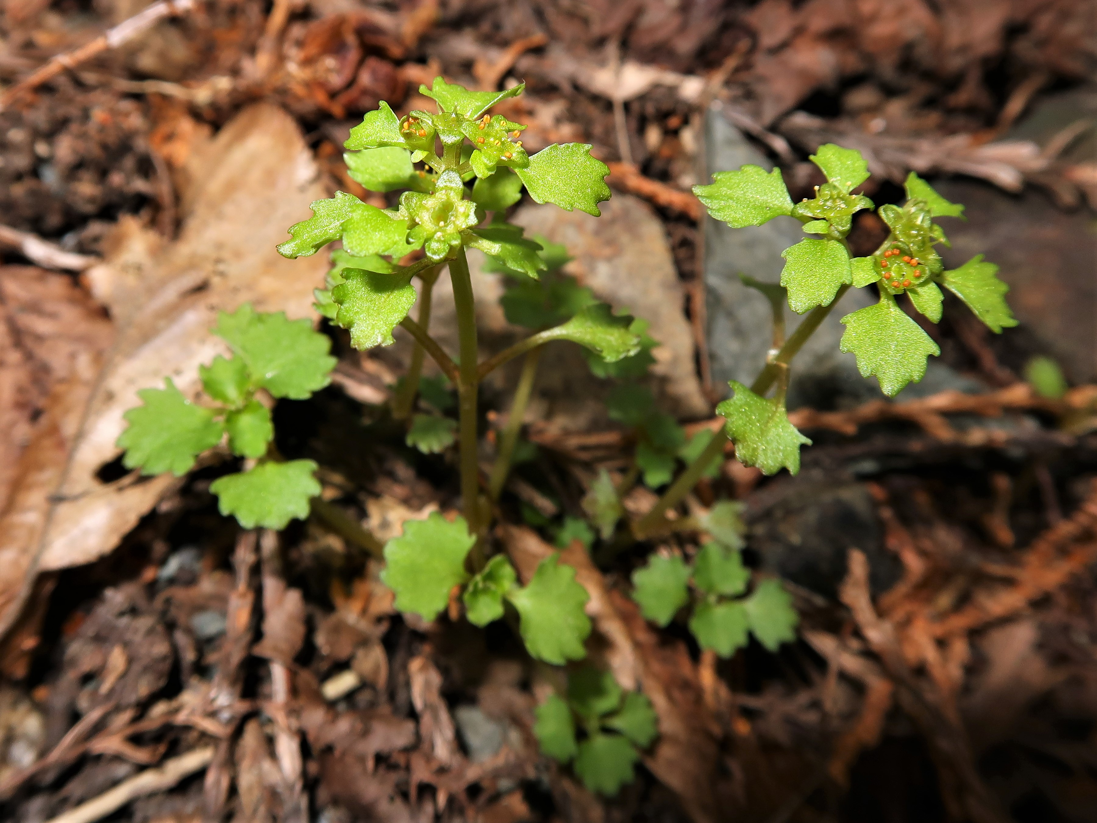 Chrysosplenium echinus, Tomo area, Gunma pref., Japan